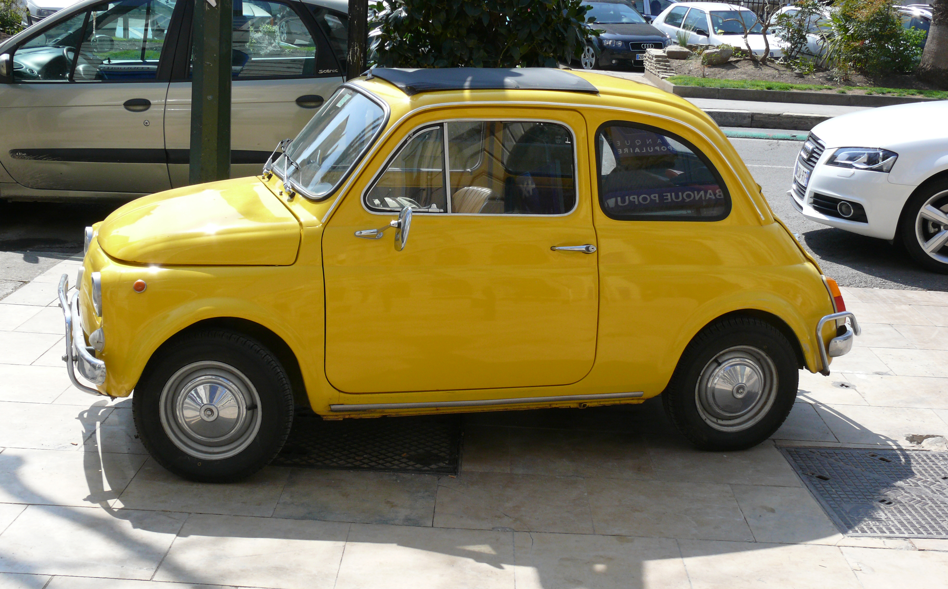 Fiat 500